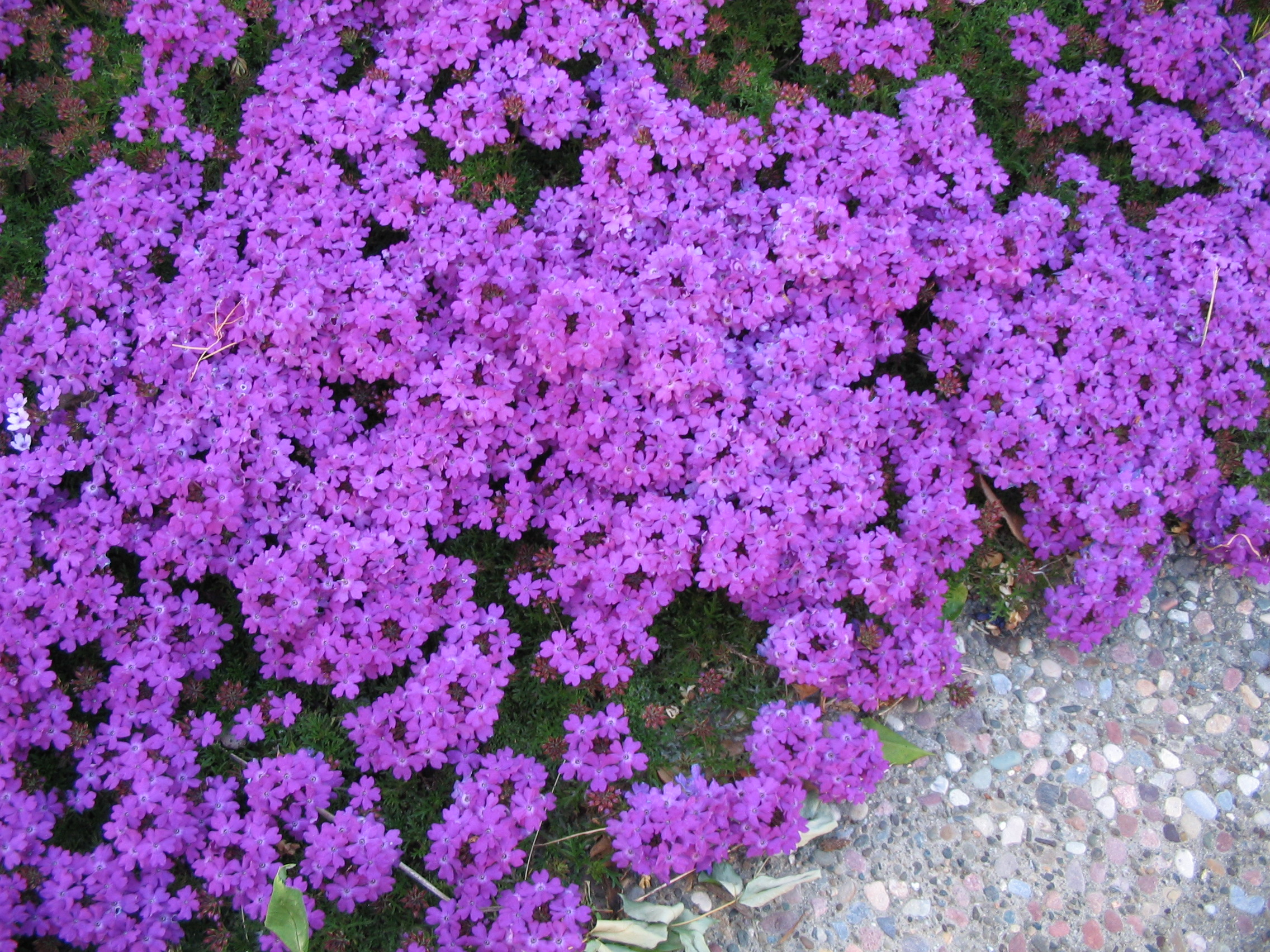 Purple Verbena